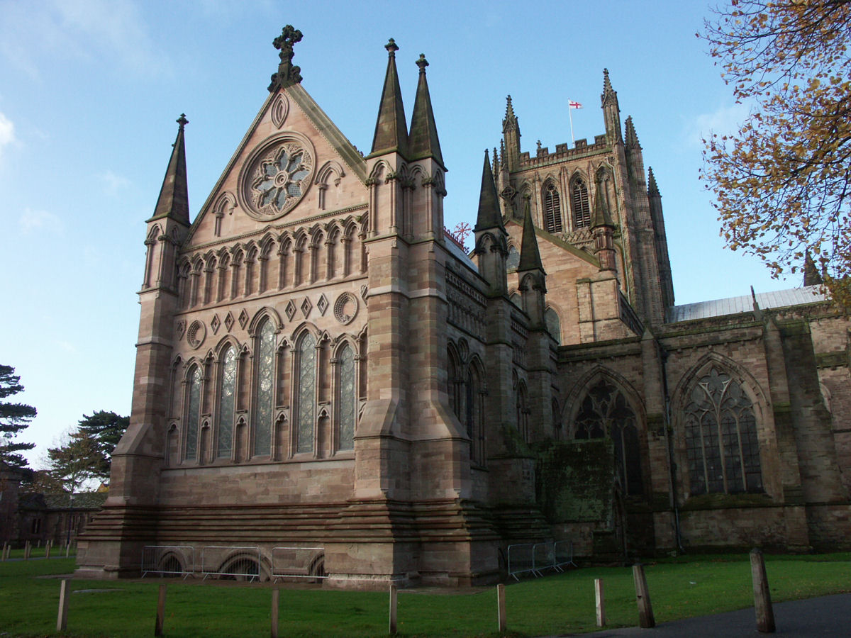 Hereford Cathedral, England